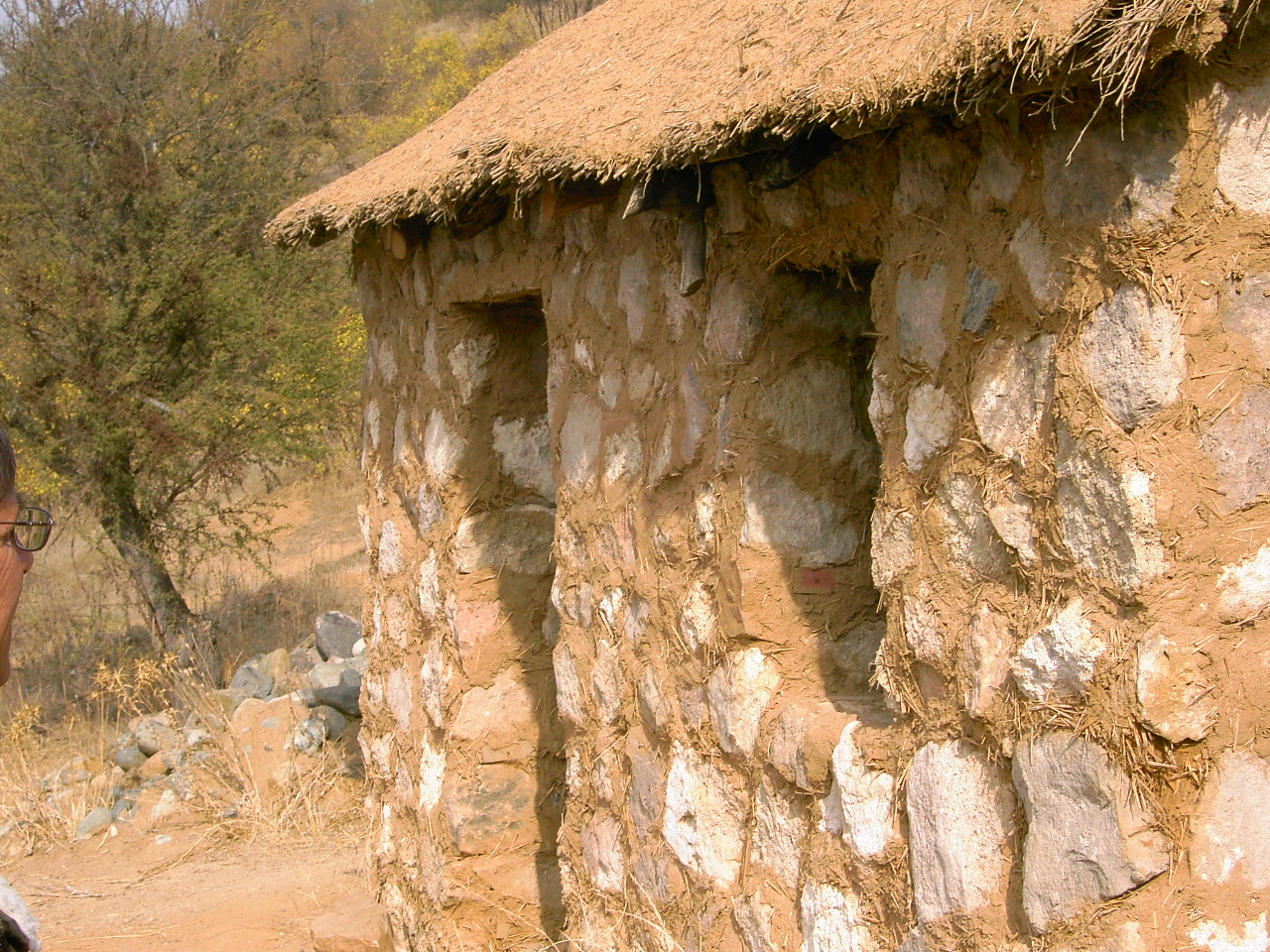 Photography of a house of the museum Museo de la Vivienda Tradicional Rural Unifamiliar Chilena in Curacaví, Chile.